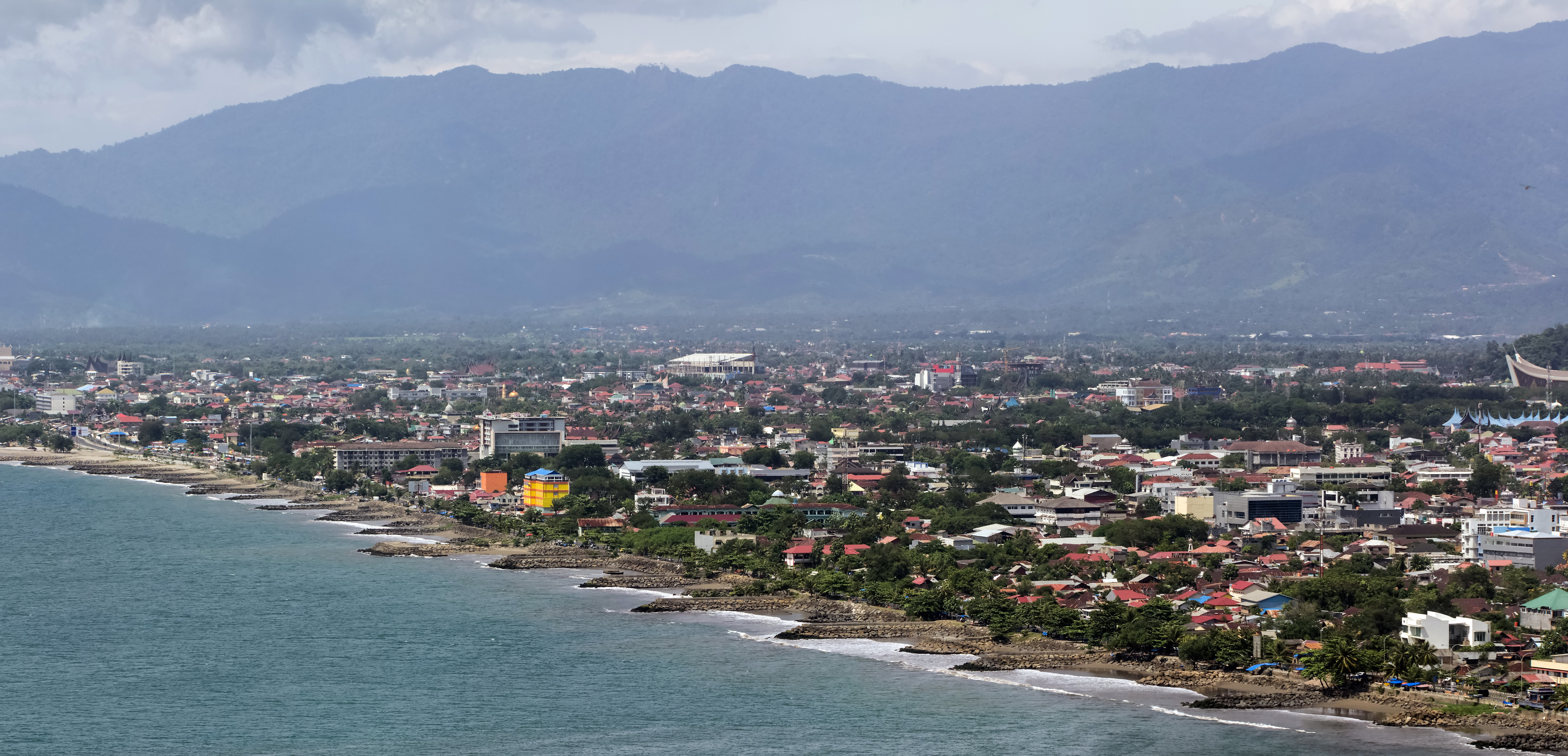 Padang City as seen from the peak of Gunung Padang, 2017-02-14